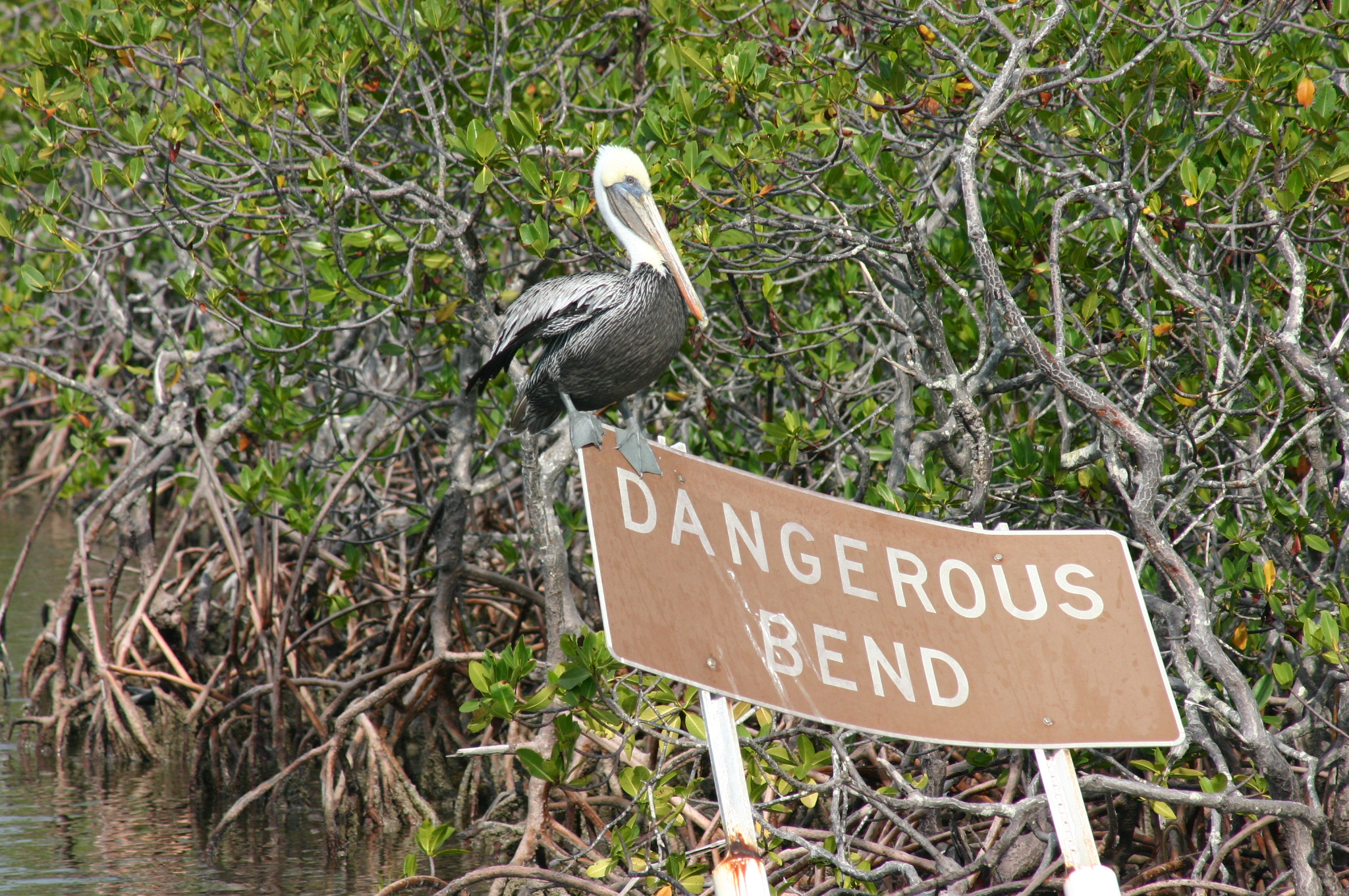 This photo shows a nonbreeding adult brown pelican at a dangerous bend sign amid a mangrove forest. Binomial name: Pelecanus occidentalis.